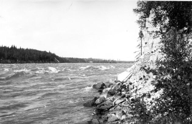 Photo of the Grand Rapids on the Saskatchewan River in 1921